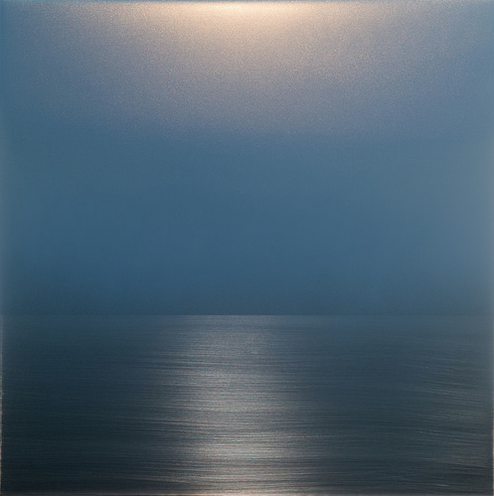 a photo of an abstract painting by artist Miya Ando Other information for use on Miya Ando's wiki page